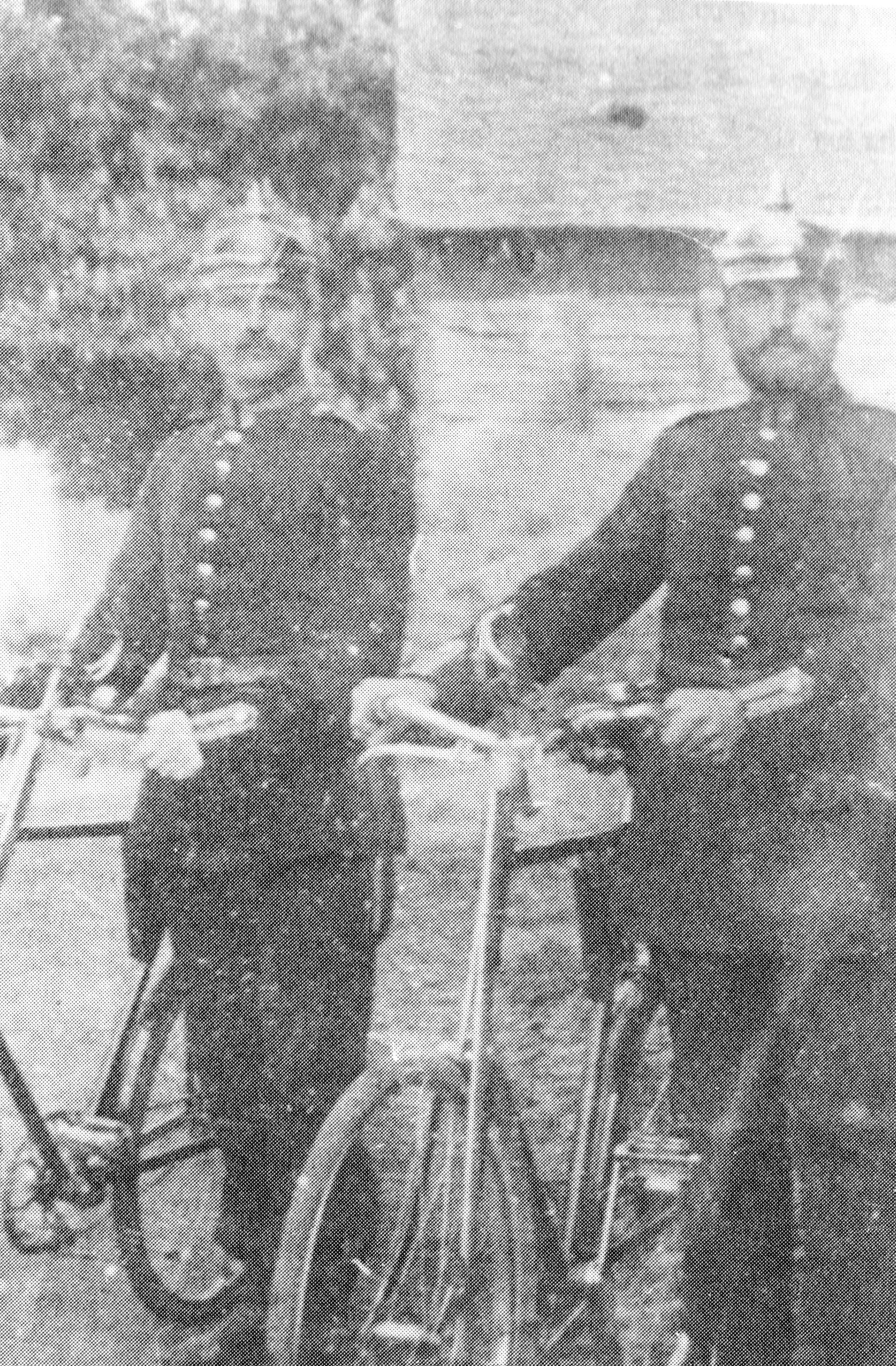 Gendarmes of the principality of Birkenfeld round about 1910. Spiked helmet with Oldenburg coat of arms. The bicycles with a gadget for the transport of the sabre on the frontside